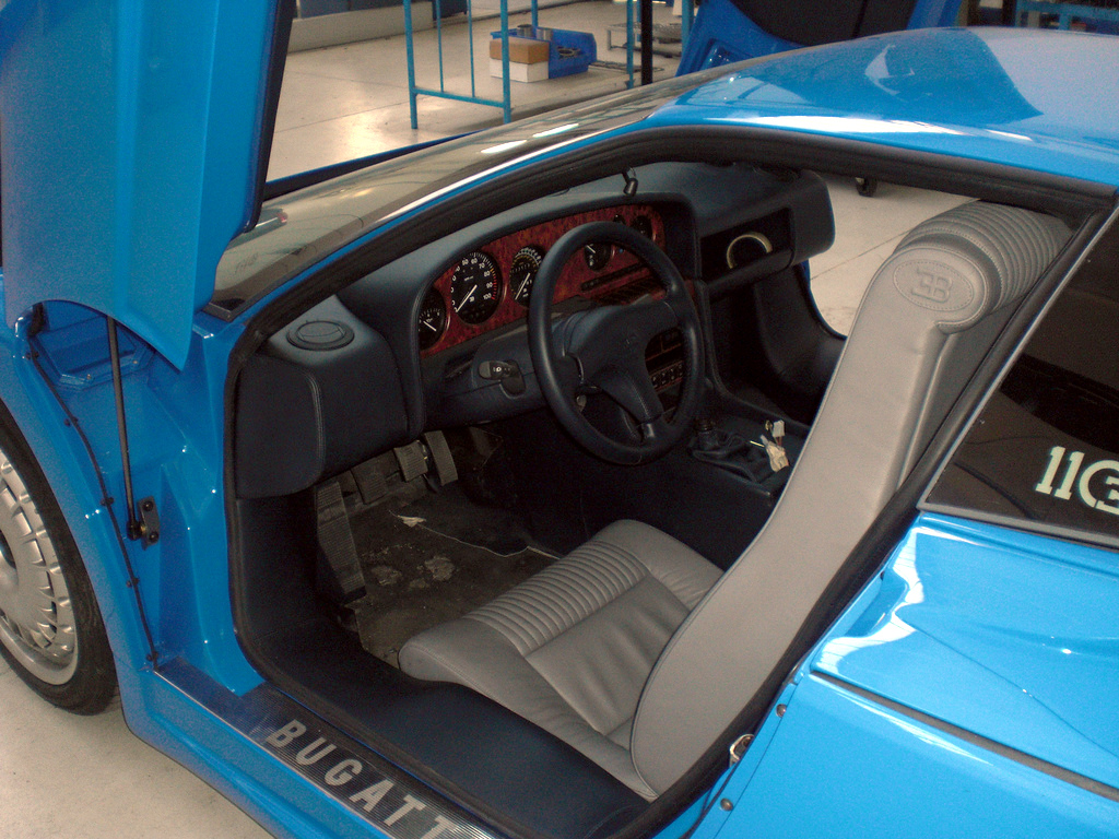 Interior of a Bugatti EB110.